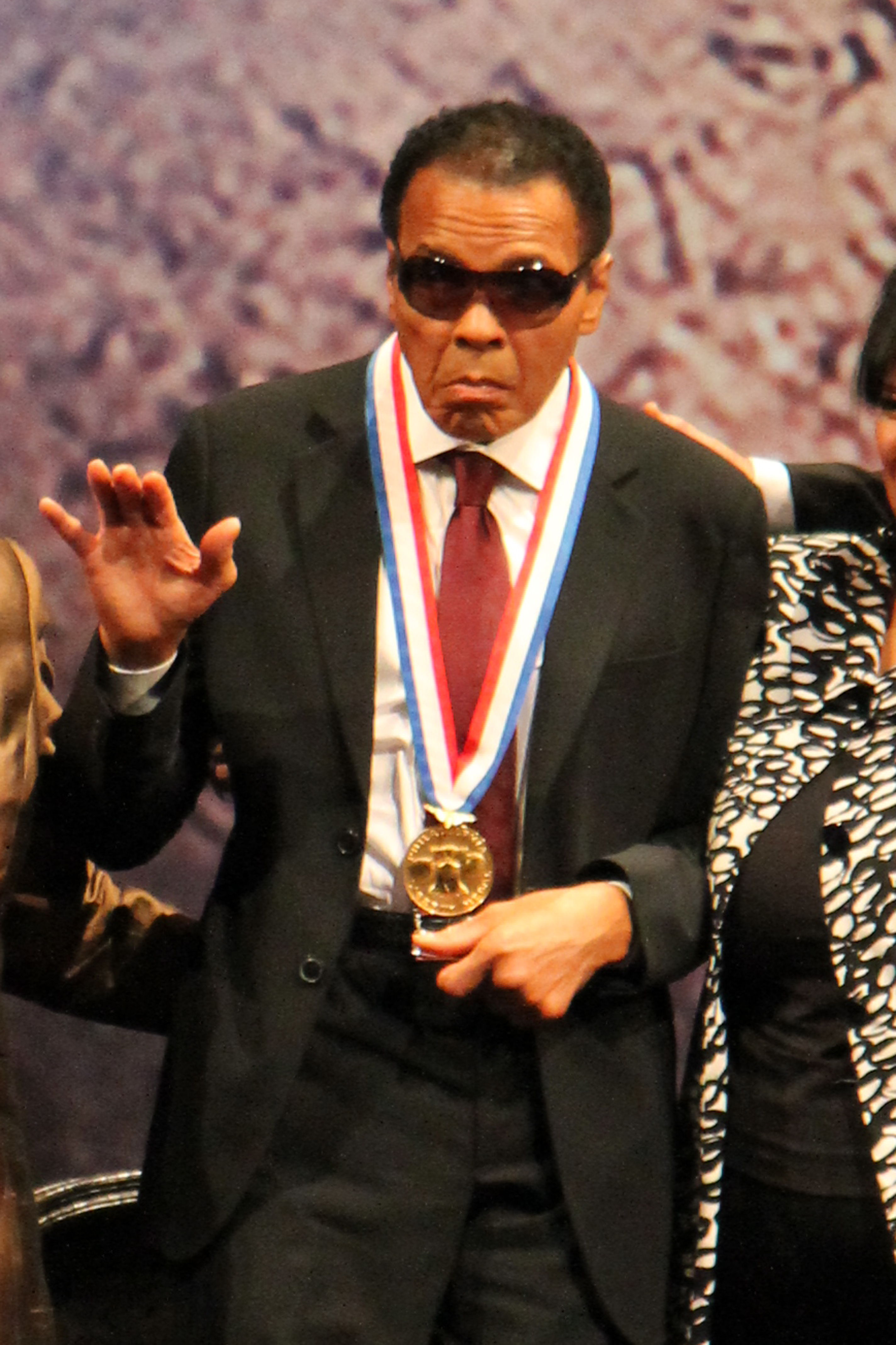 Receiving the 2012 Liberty Medal National Constitution Center Philadelphia, PA 9/13/12 my review